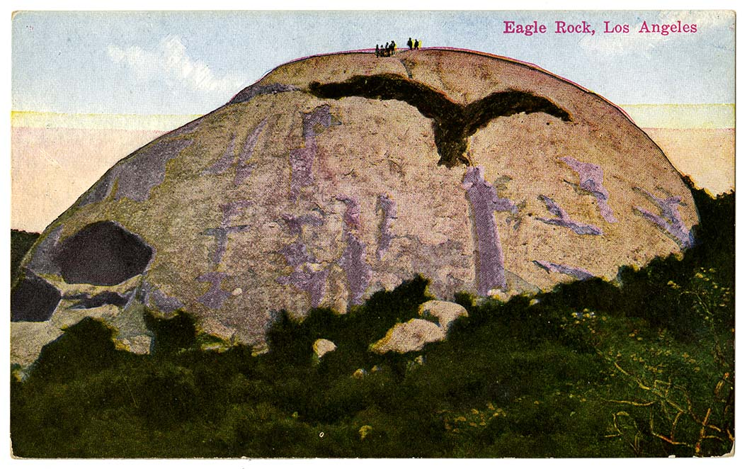 Repository: California Historical Society Date: Undated General note: Pacific Novelty Co., San Francisco Format: Postcard Digital object ID: CHS2015.1889 Preferred citation: Eagle Rock, Los Angeles, courtesy, California Historical Society, CHS2015.1889